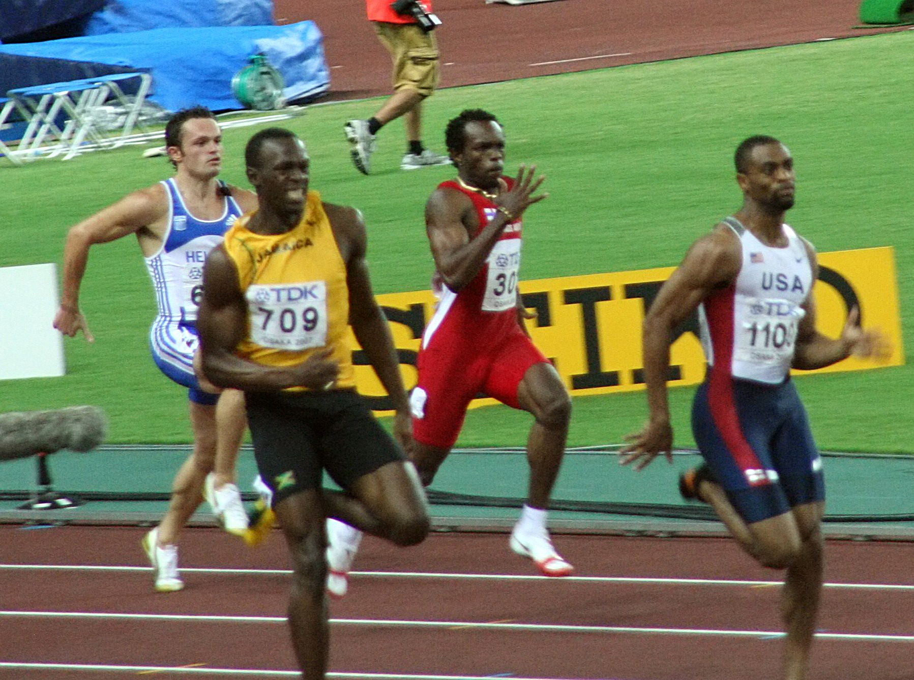 World Athletics Championships 2007 in Osaka - Last 50 metres of the men*s 200 metres race - winner Tyson Gay is seen to the right